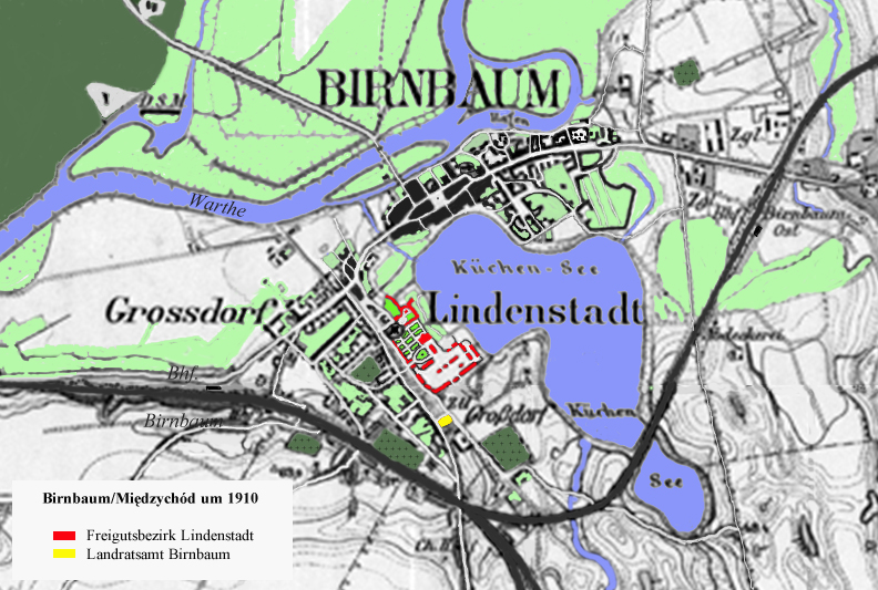 City map of Międzychód 1910